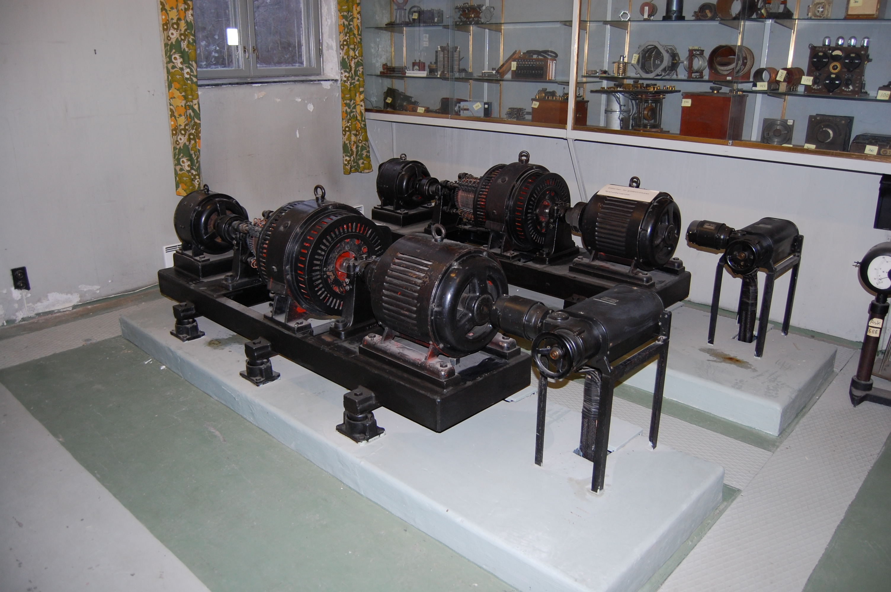 Rotating transformers at Bergen kringkaster, Askøy, Norway